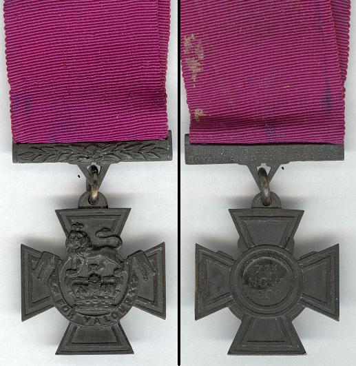 RCD Archives and Collection